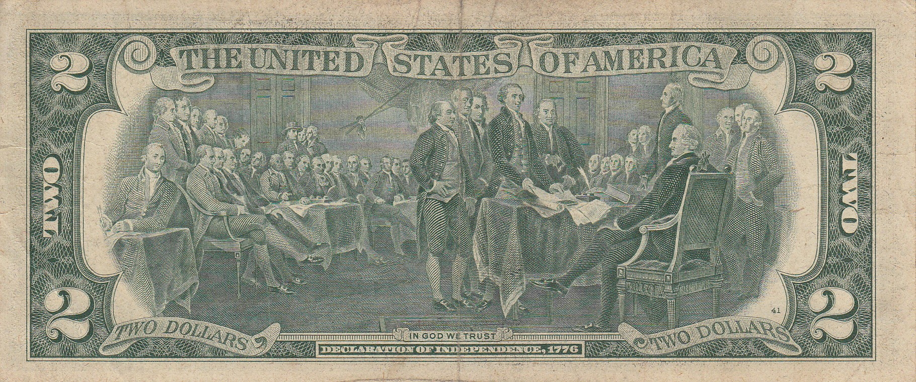 United States two-dollar bill reverse (1976).